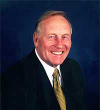 Depicted person: Allen Carr – British writer